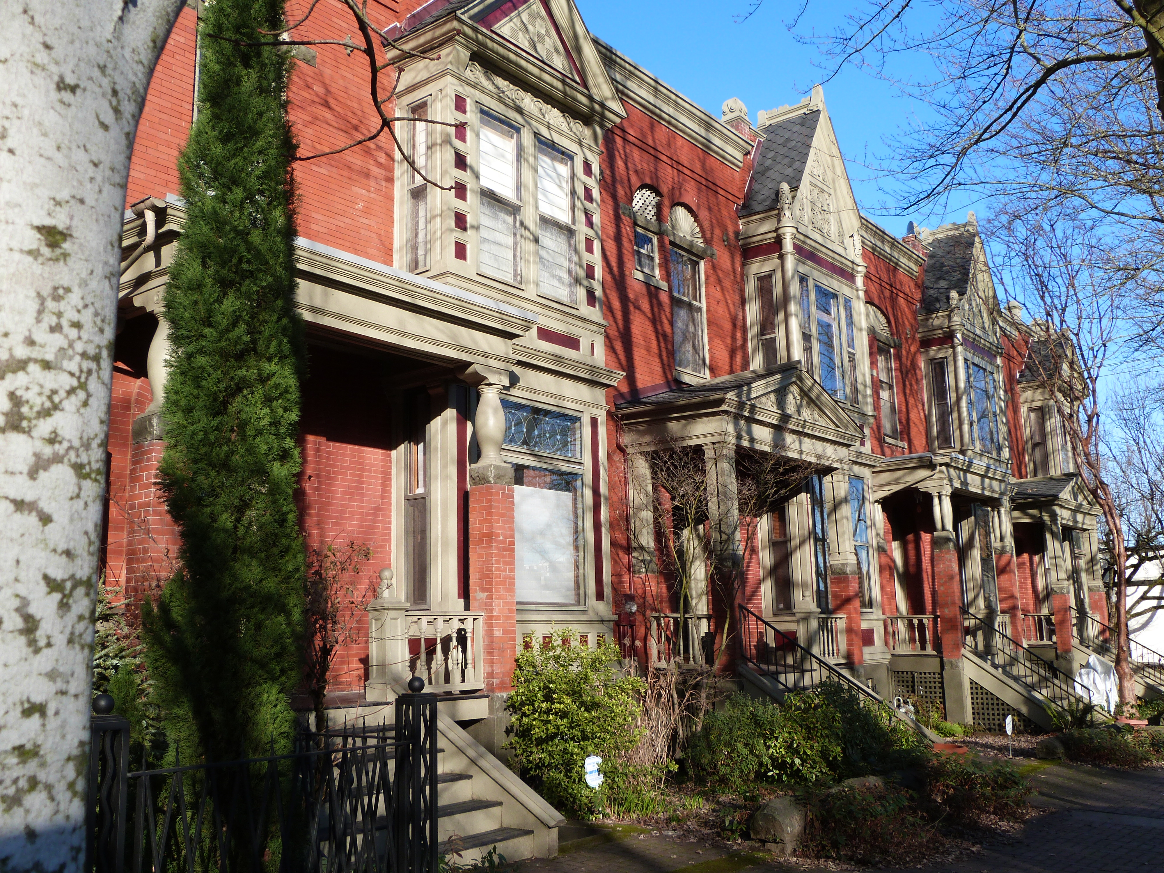 The historic Campbell Townhouses (built 1893), located at 1705–1719 Northwest Irving Street in Portland, Oregon, United States, are listed on the US National Register of Historic Places. They are additionally listed as a contributing resource in the National Register-listed Alphabet Historic District.